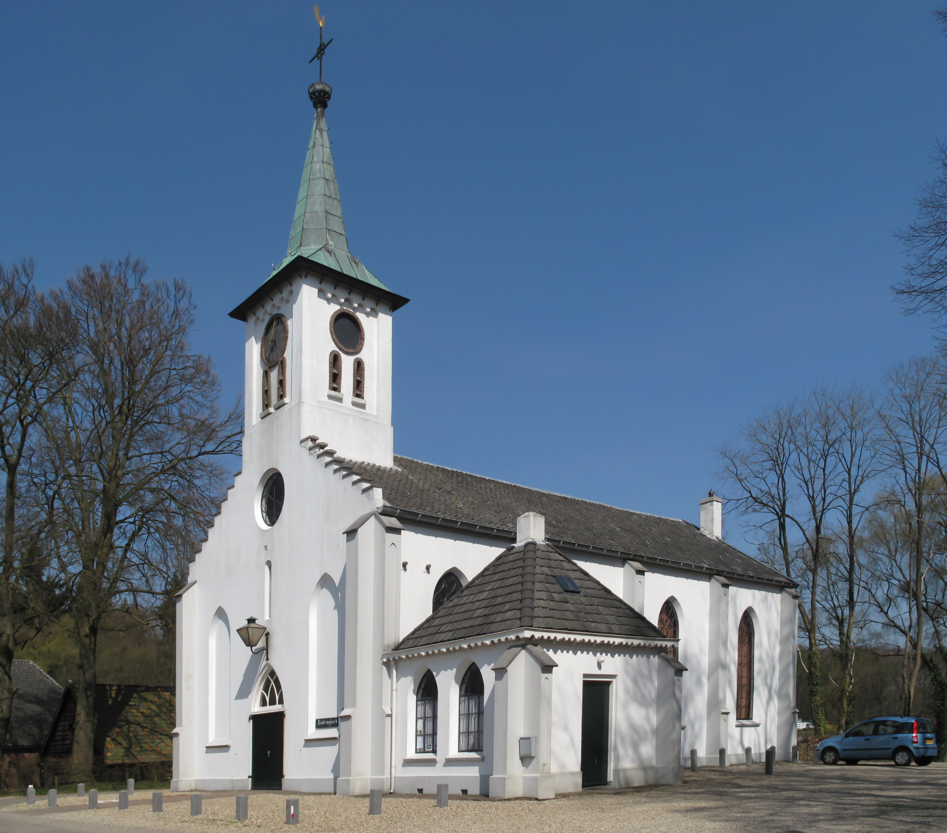 Hoenderloo, church: Heldringkerk